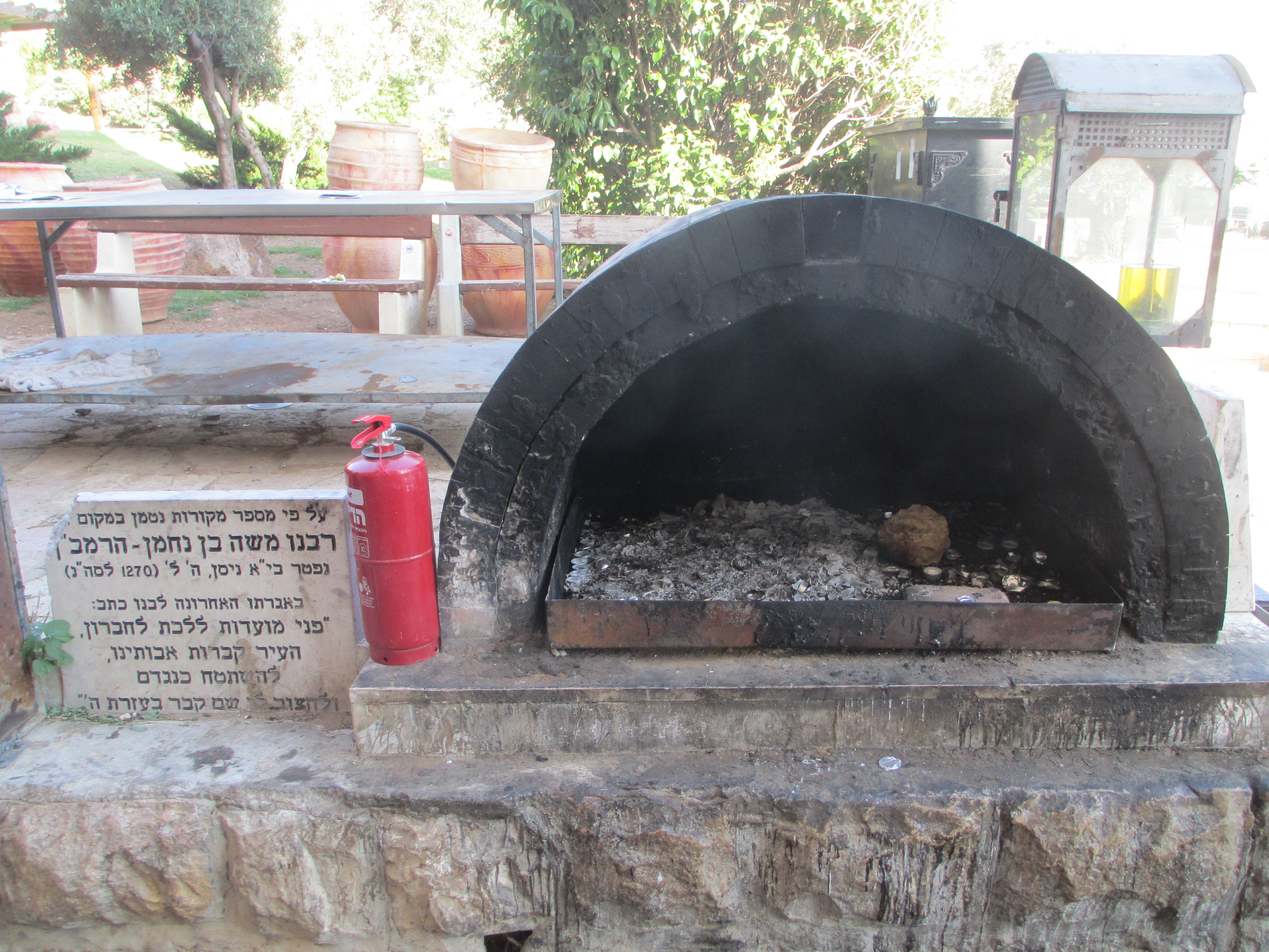 Grave of Nahmanides in Hebron